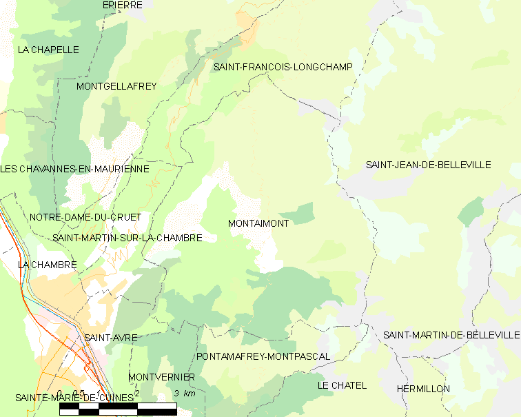 Map of French municipality